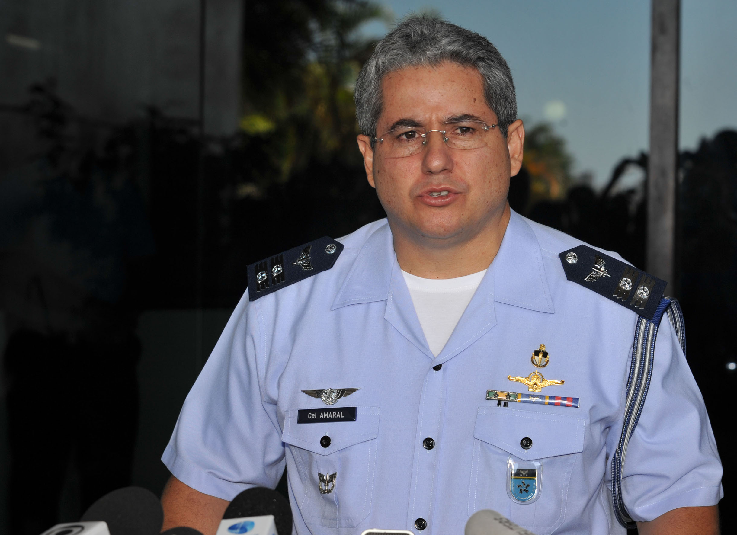 Recife - Colonel Jorge Antônio Amaral, the deputy head of the Department of Aeronautics Commission, gives a press conference.